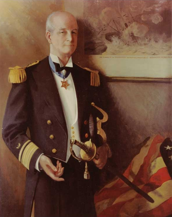 Rear Admiral Richmond Pearson Hobson, USN (Construction Corps, Retired), (1870-1937). Hobson received the Medal of Honor for his role in the sinking of USS Merrimac on 3 June 1898. He is depicted standing before an artwork of that event. Gift of Herbert Pell, 1949. Official U.S. Navy Photograph.